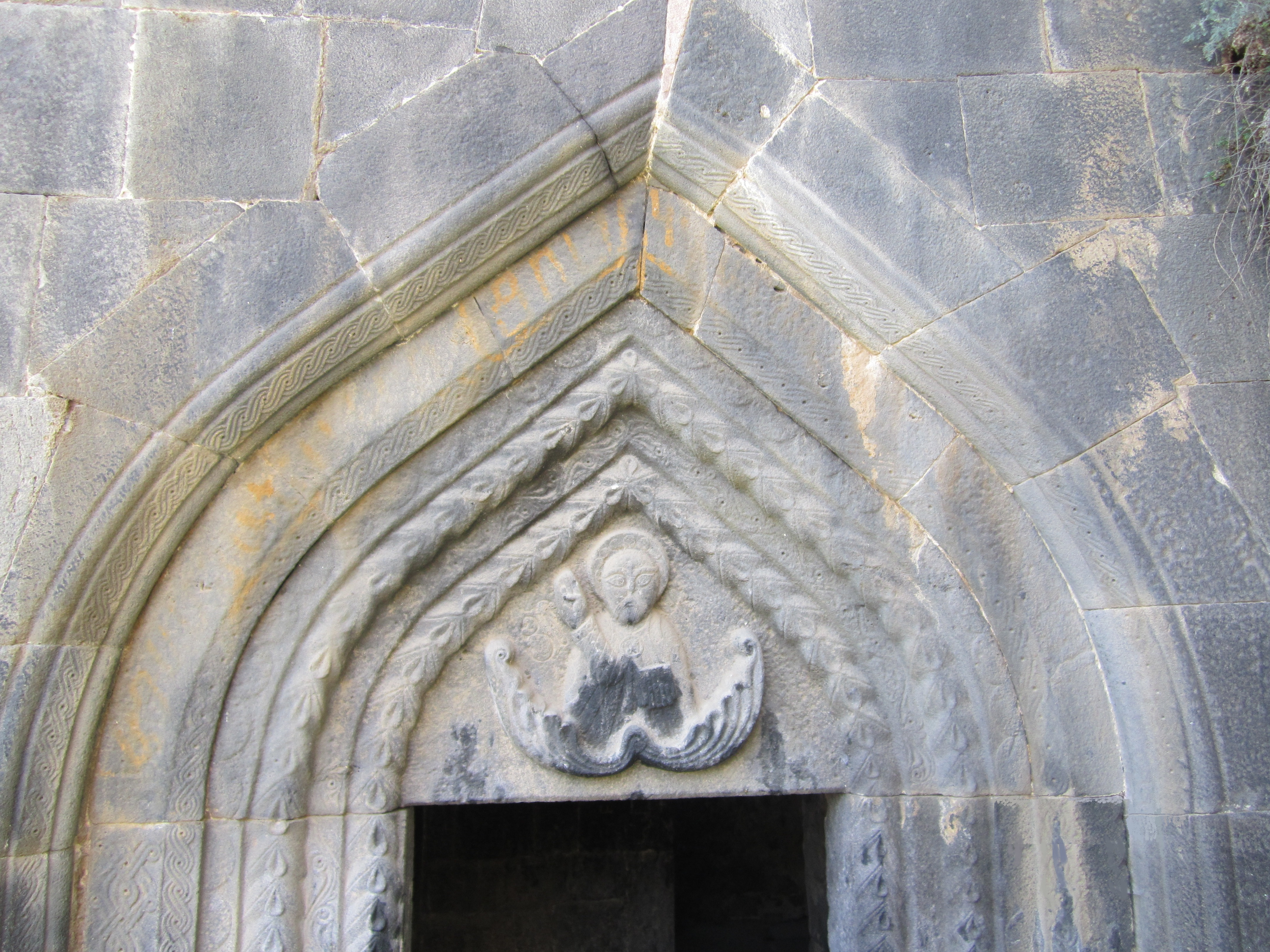 Photo by Arthur Papoyan 112/10